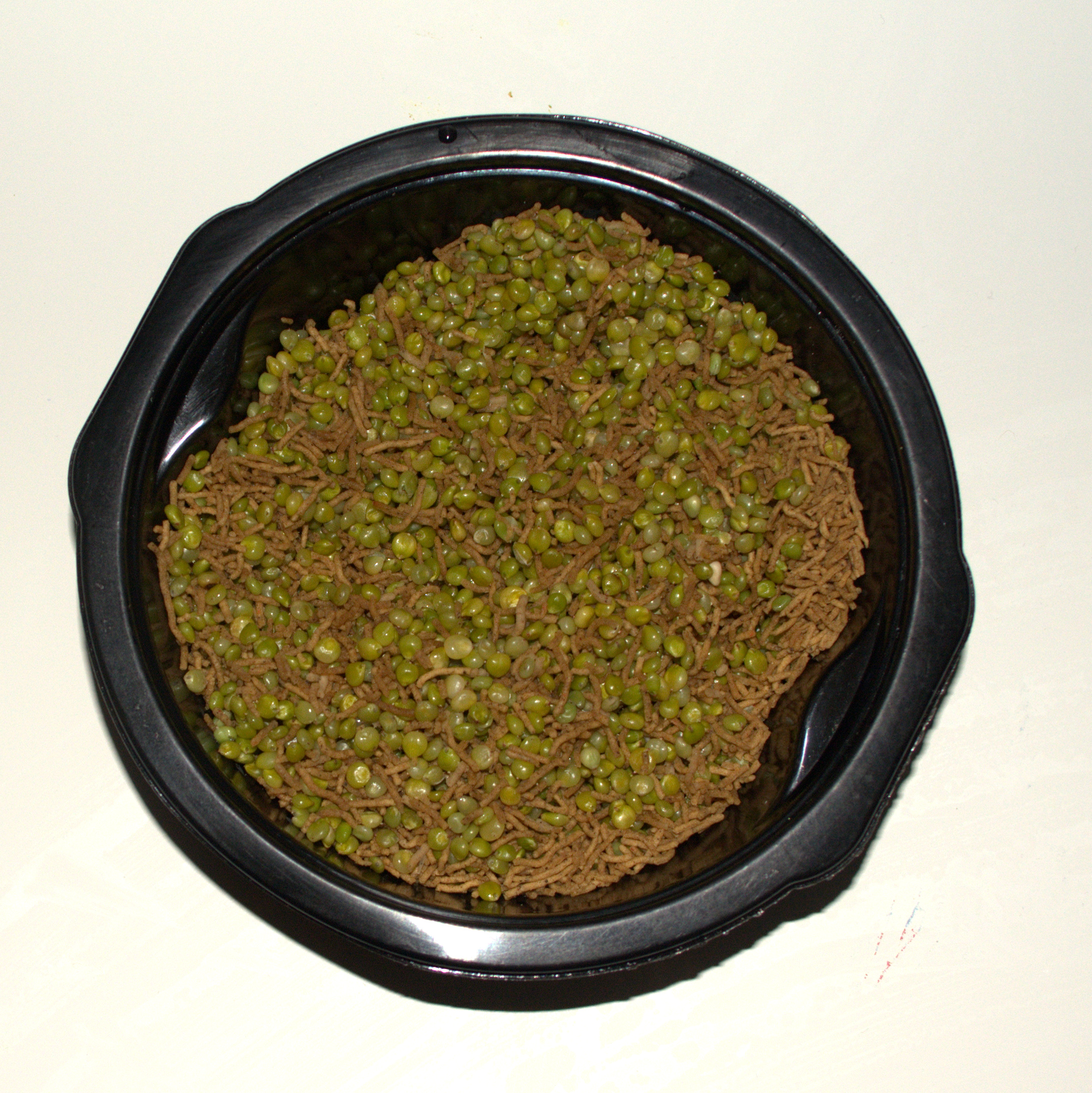 ponk and sev, a Gujarati dish from India